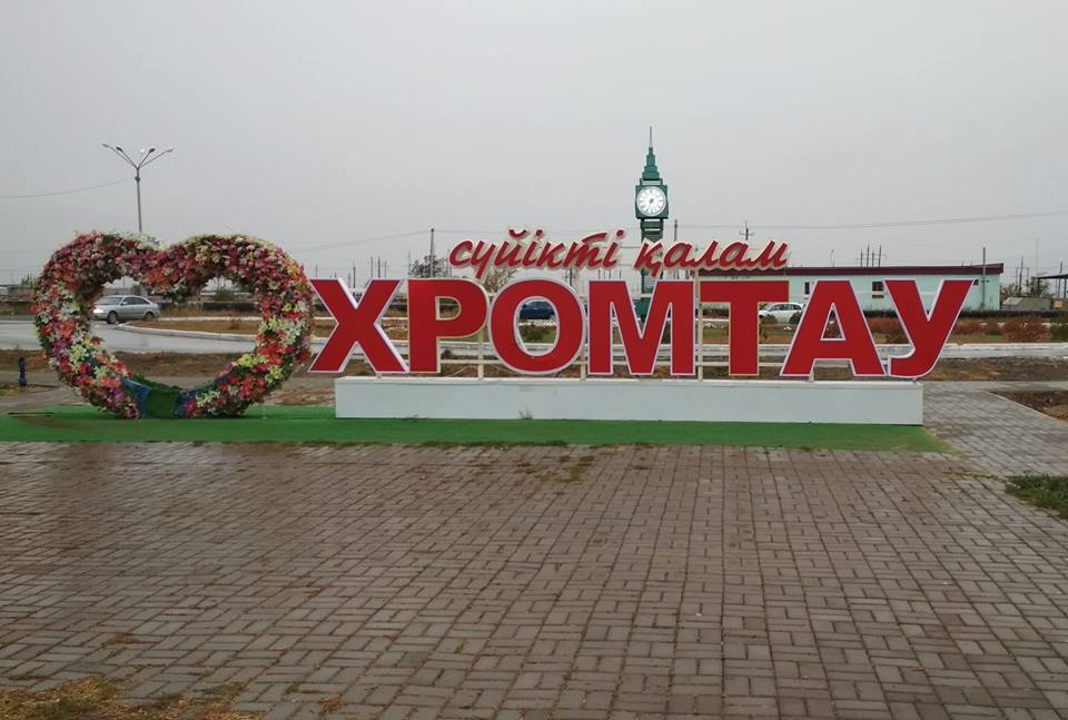 Chromtau